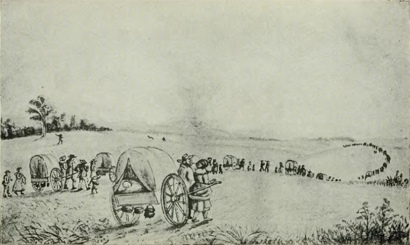 Illustration in History of Iowa From the Earliest Times to the Beginning of the Twentieth Century of Mormon handcart pioneers. A depiction of members of The Church of Jesus Christ of Latter-day Saints en-route to Salt Lake City.